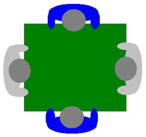 Seating chart for the card game Tarneeb.